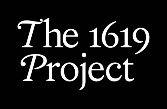 The 1619 Project wordmark